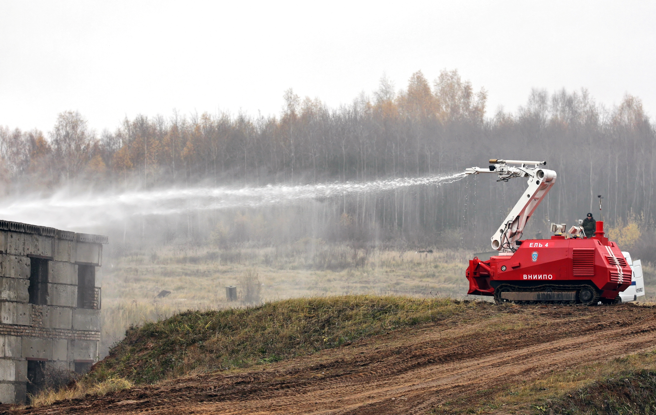 The Unmanned fire apparatus El-4 at work.